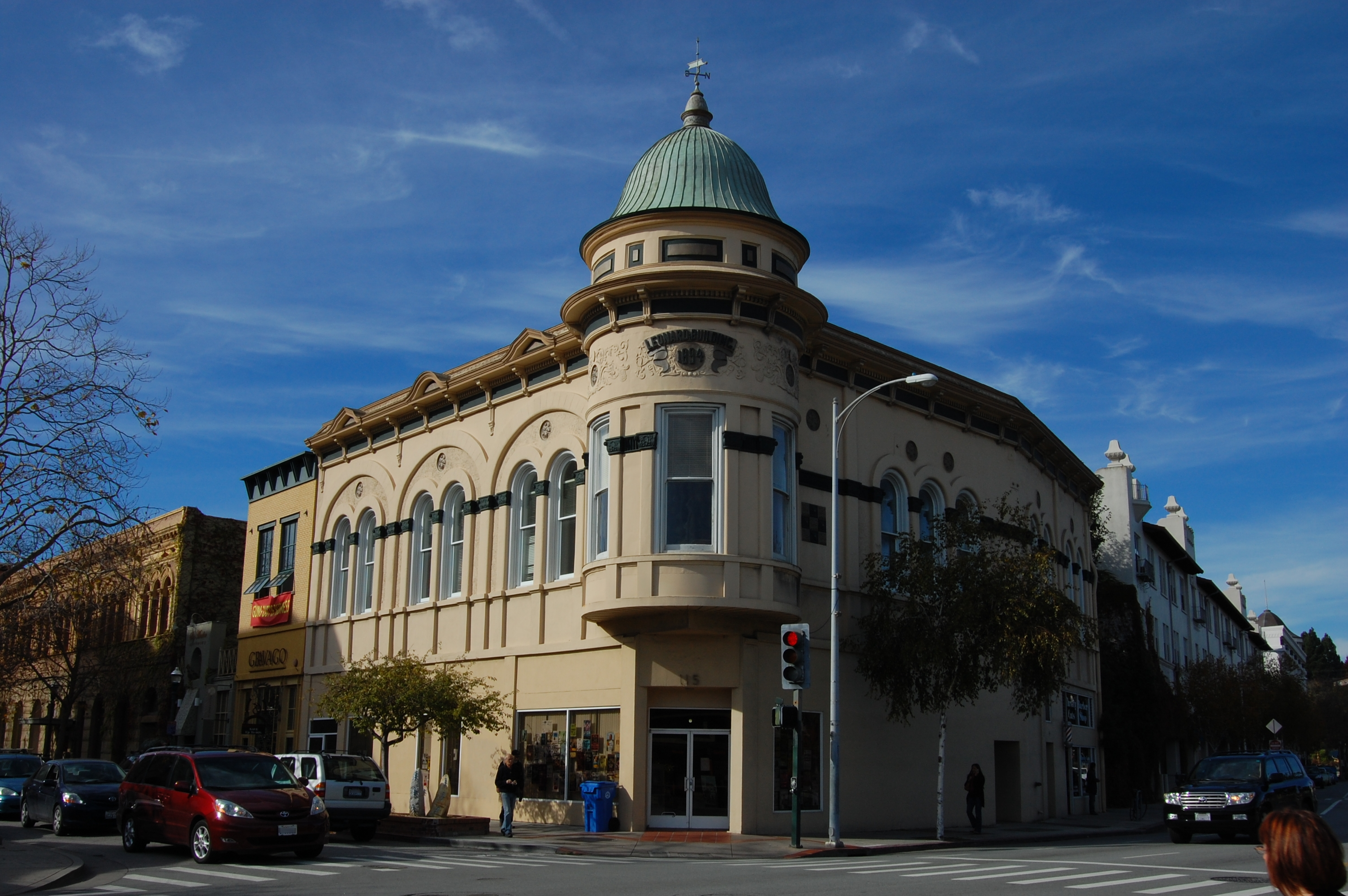 115 Cooper Street. Santa Cruz, California, USA